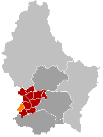 Clemency municipality location (valid until 1 January 2012). Own edit of Image:Kanton CapellenLocatie.png